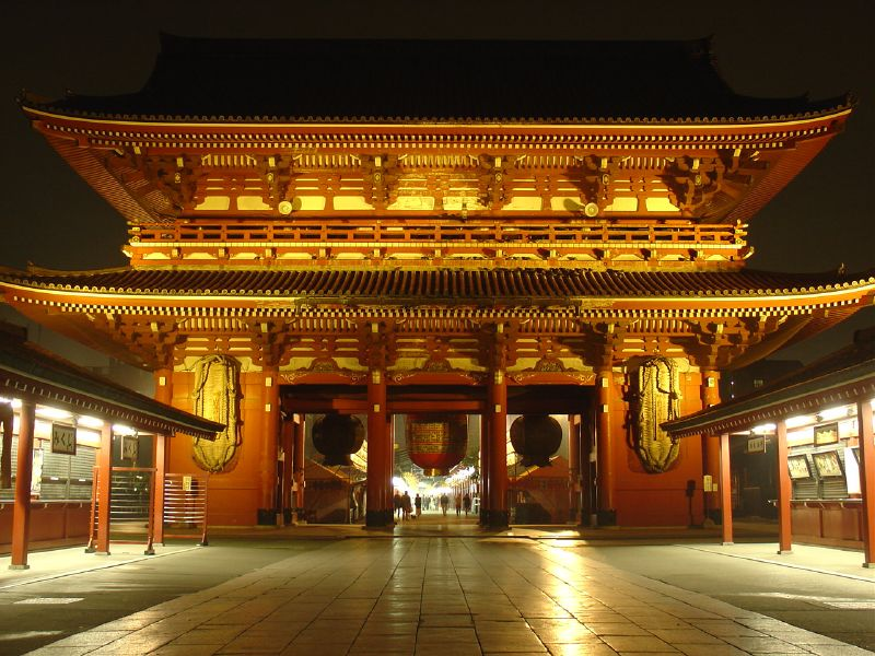 The back of the Hōzōmon in Asakusa. Notice the sandals.